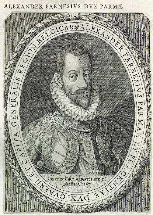 Alessandro Farnese, Duke of Parma